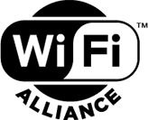 The Wi-Fi Alliance introduced the Miracast standard in September and expects the number of Miracast-certified devices to surpass 1.5 billion within the next 3 years.